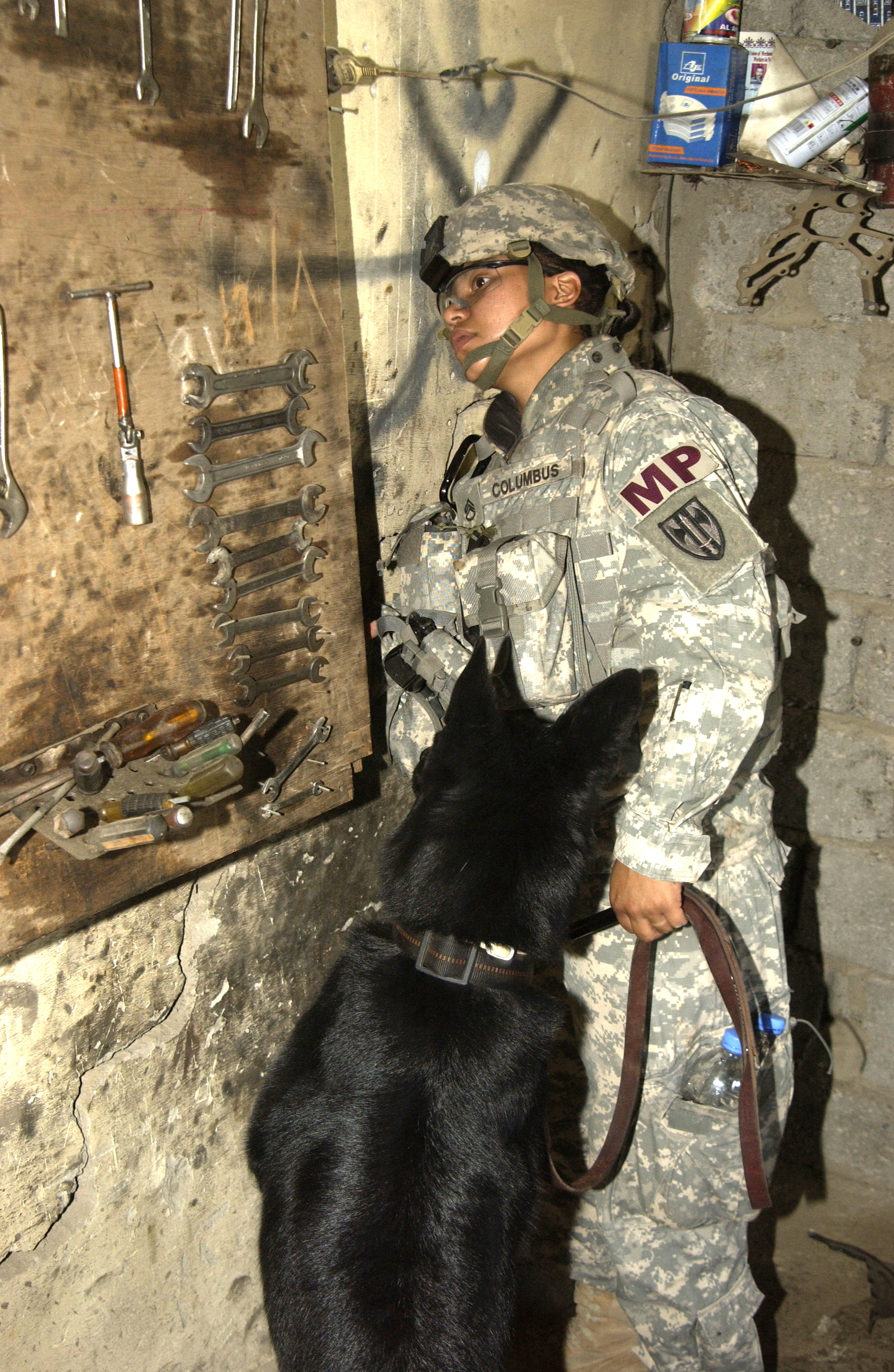 Staff Sgt. Kristina Columbus and her military working dog Anna, search a garage suspected of being used to make the IEDs.